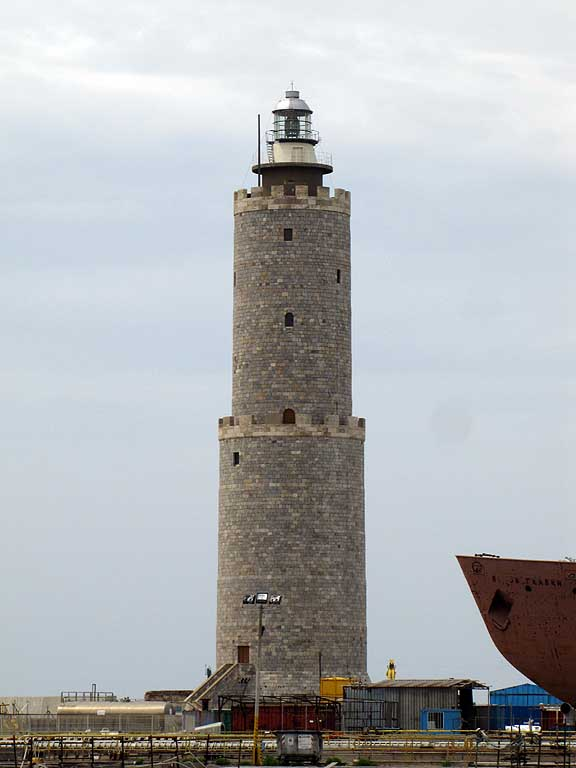 Lighthouse at the entrance of the port of Livorno